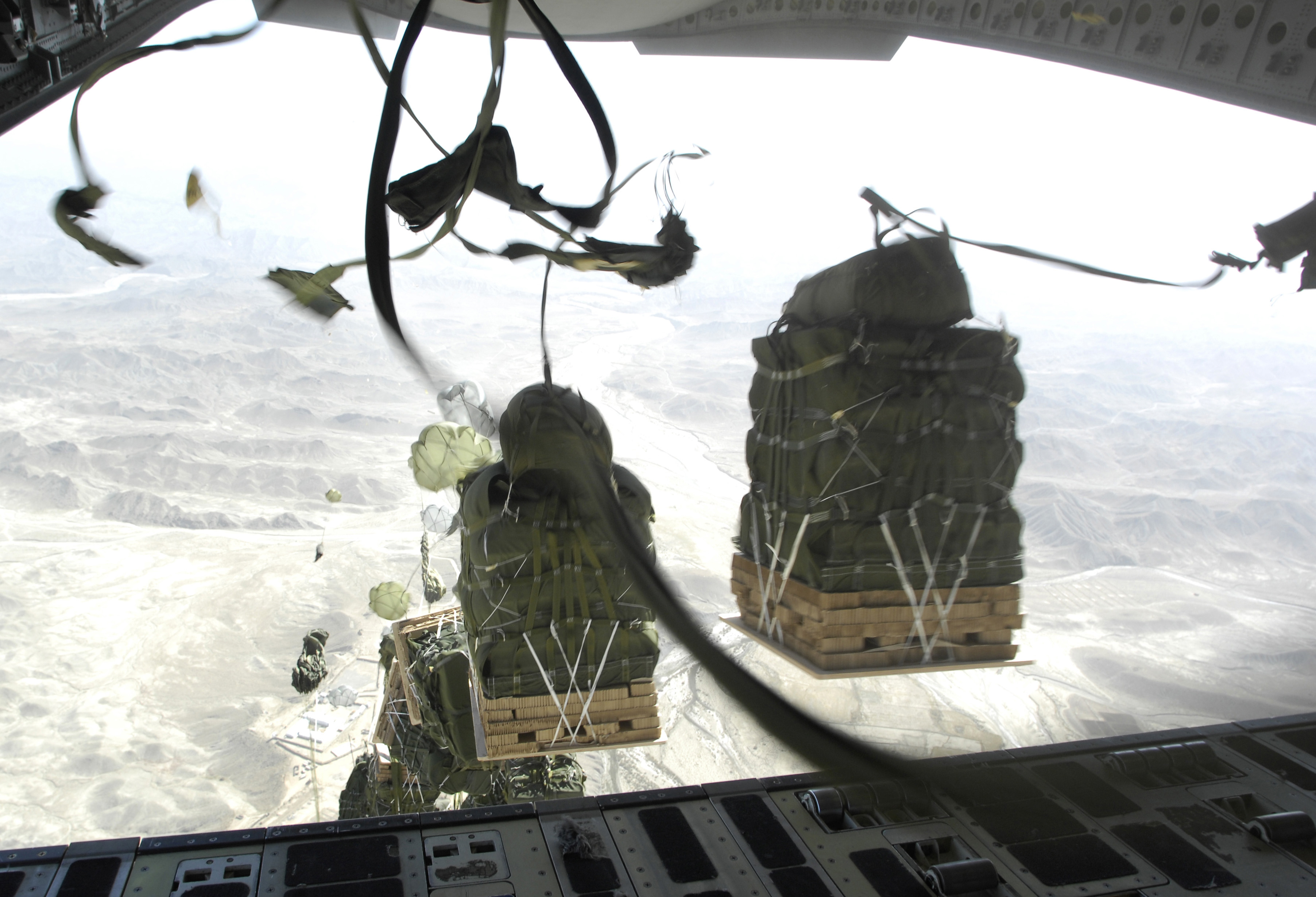 Bundles drop from a C-17 Globemaster III aircraft during a combat cargo drop over a drop zone in Afghanistan on Oct. 11, 2007. Sixty-two cargo bundles in all were dropped by the flight during the mission.